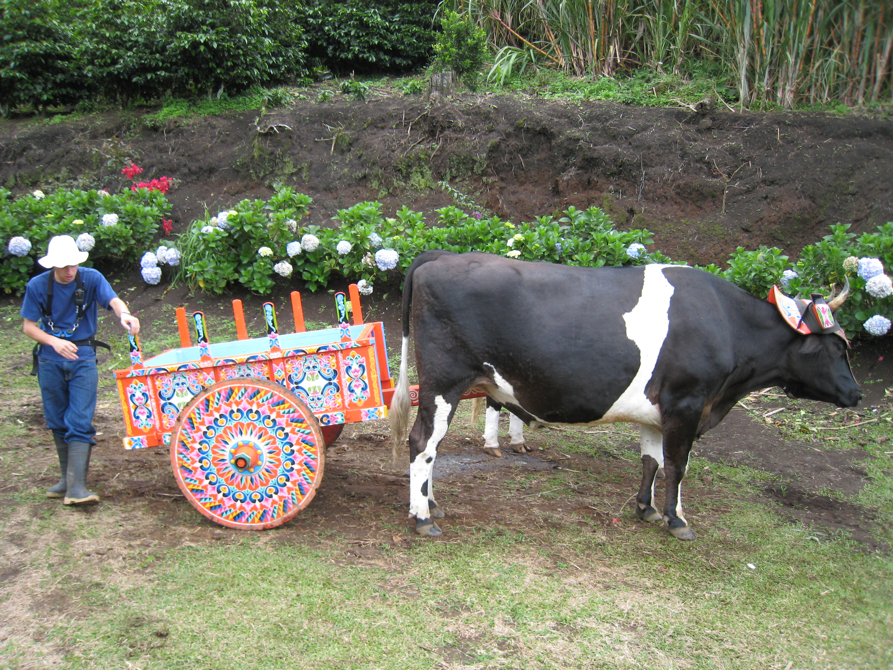 Oxen yoked to a traditional Costa Rican oxcart.